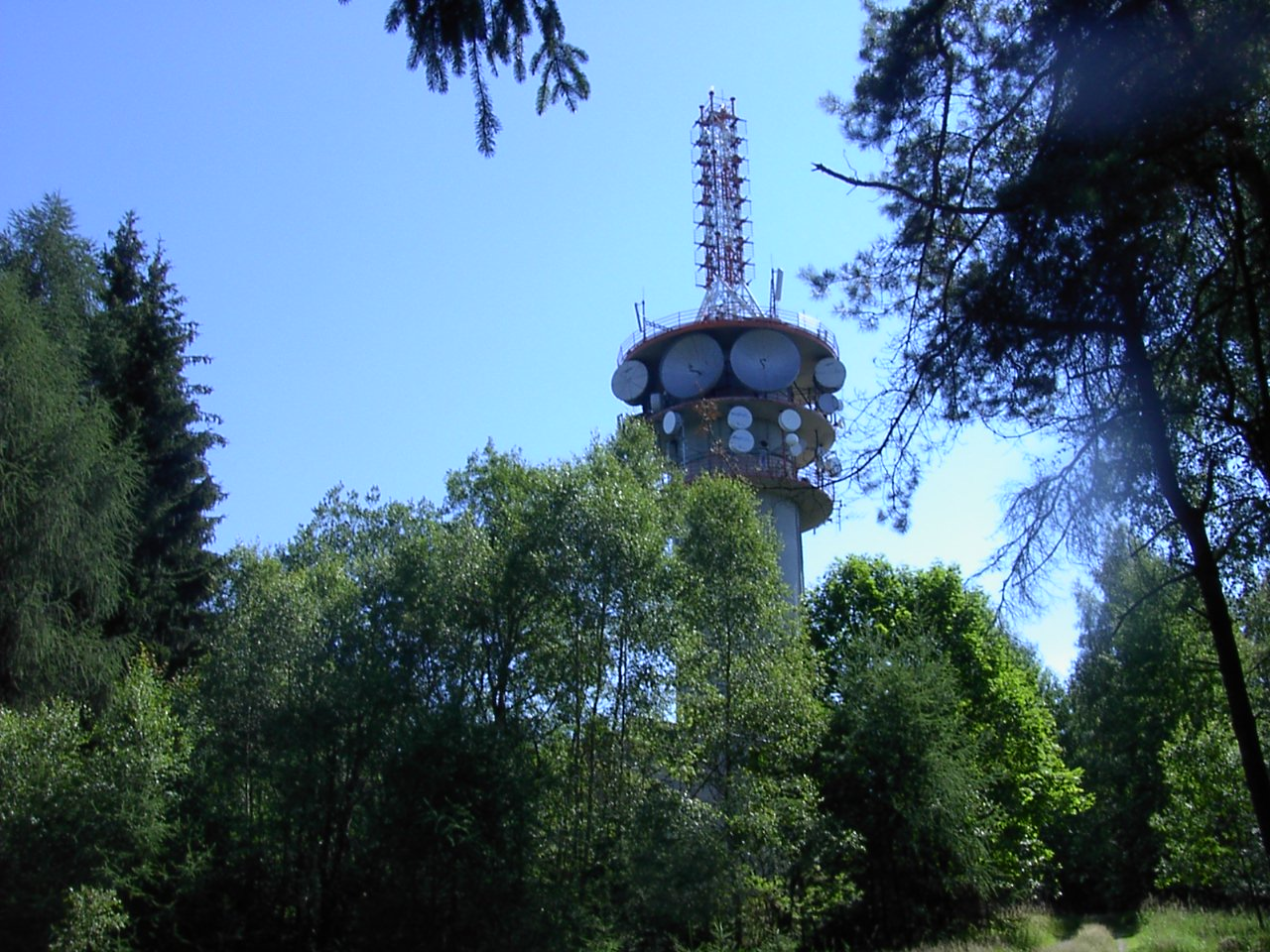 Brno hill in Radečm Brdy mountain